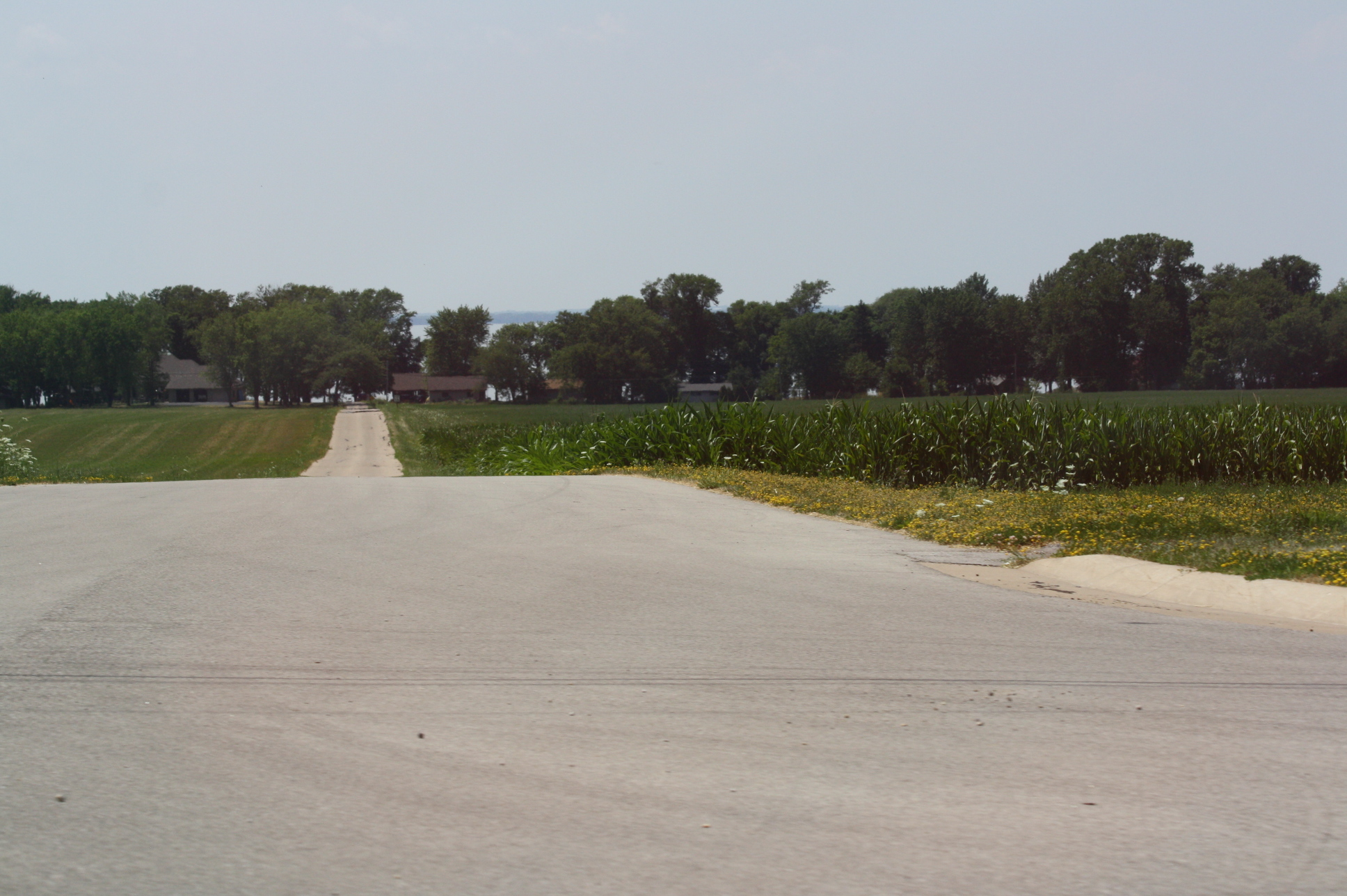 The road entering Pukwana Beach, Wisconsin.